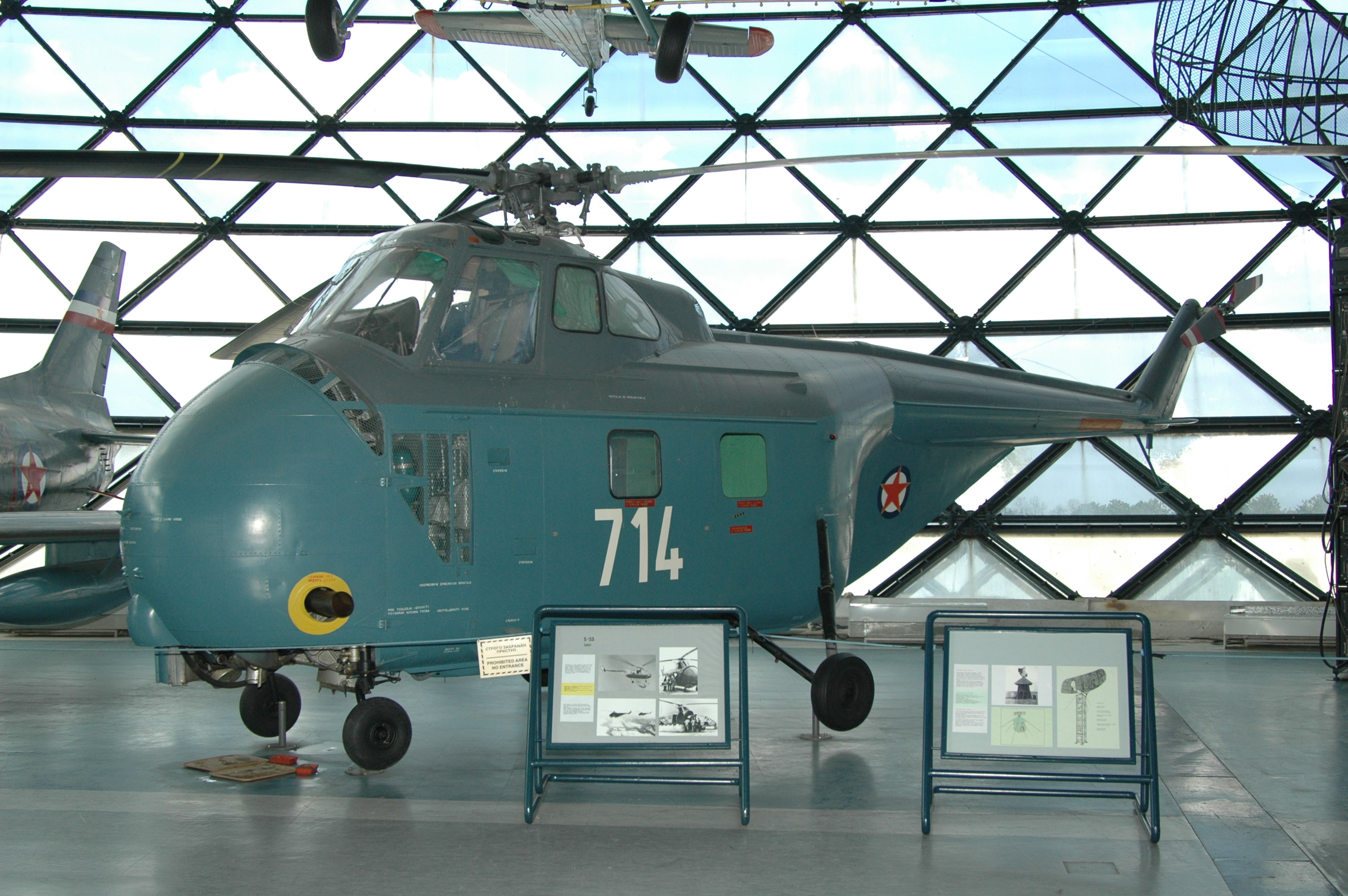 Soko S-55 MkV